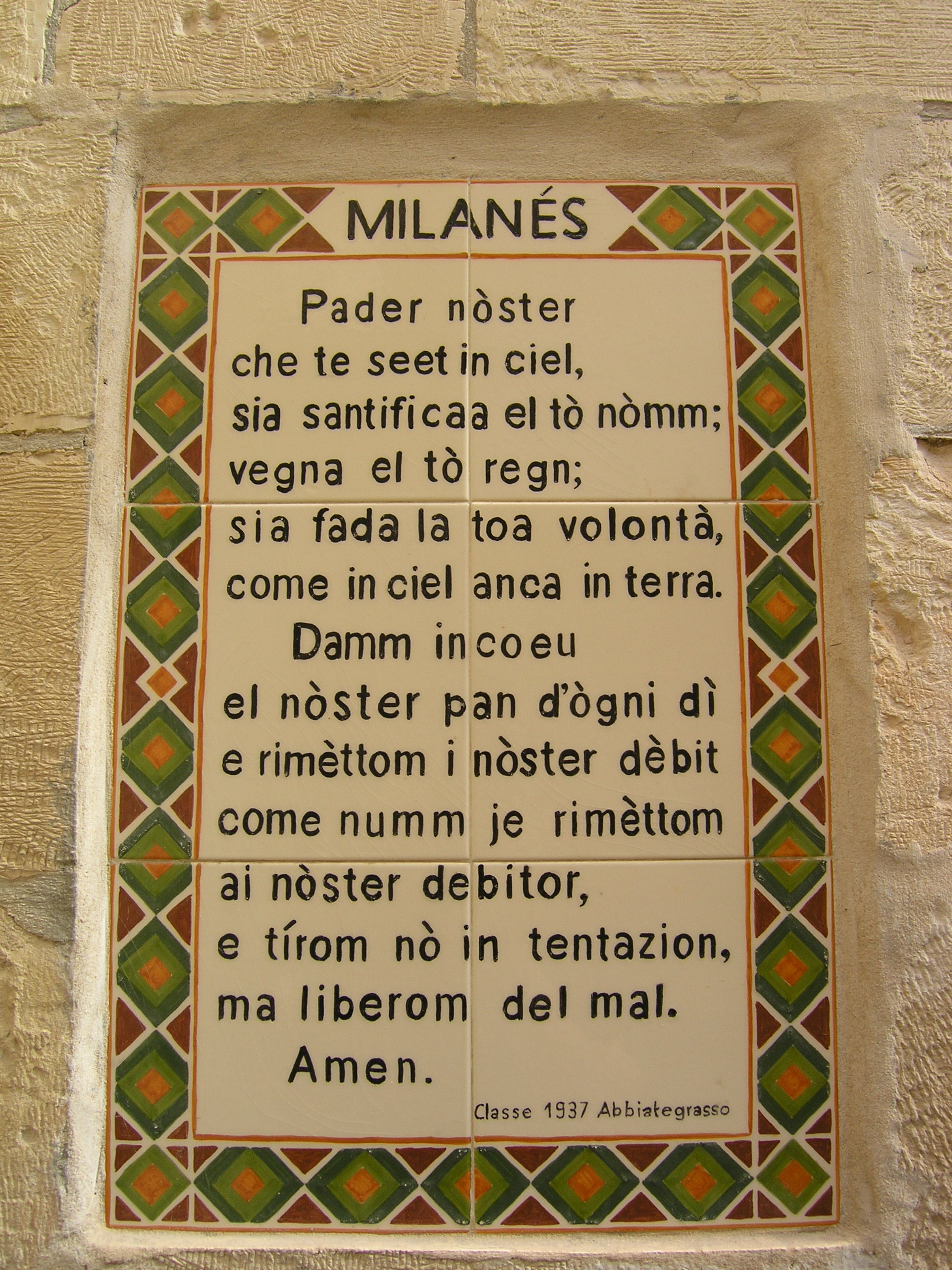 Jerusalem (Israel): Lord's Prayer in milanese dialect, Church of the Pater Noster